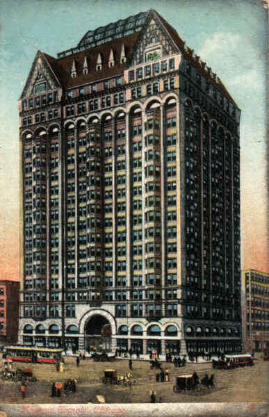 1909 postcard of the Masonic Temple Building in Chicago. pre-1923 image